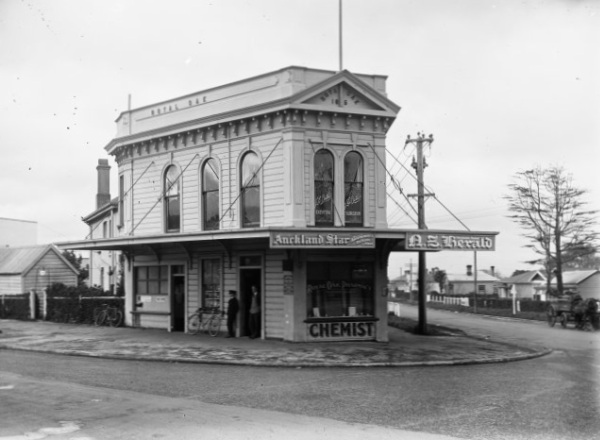 The pharmacy building at what is today the Royal Oak Roundabout in 1910, Royal Oak, Auckland, New Zealand. Looking southeast with Campbell Road to the left, and Mt Smart Road to the right. Extended information on origin webpage reads: Business premises on the corner of Campbell Road and Mt Smart Road, Royal Oak, Auckland [ca 1910] / Reference number: 1/2-001197-G / 1 b&w original negative(s). Dry plate glass negative 4.5 x 6.5 inches. Horizontal image. / Part of Price, William Archer, d 1948 :Collection of post card negatives (PAColl-3057) Photographic Archive / Scope and contents: View of the building on the corner of Mt Smart Road and Campbell Road, Royal Oak. The Royal Oak Pharmacy and a post office occupy the downstairs areas and J E Butler, dental surgeon, has rooms upstairs. Two men can be seen in a doorway (one is a postman) and there are two bicycles nearby. A house and cart can be seen on the road to the right. Auckland Star and NZ Herald signs can be seen. The building at the back with a chimney is the original Royal Oak hotel built in 1853. Photograph taken by William A Price in early 1900s. / Historical notes: William Archer Price lived and practised in Queen Street, Northcote, 1909-1910. / Source: New Zealand Post Office directories